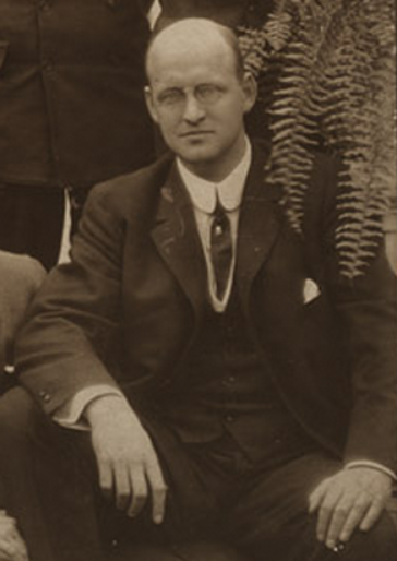 Photograph of George Lee (cropped from Dirty Dozen, 1909)